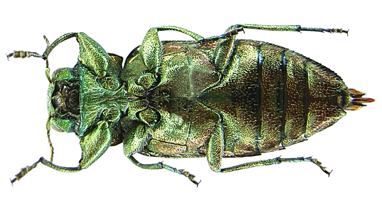 Underside of male Chrysobothris affinis